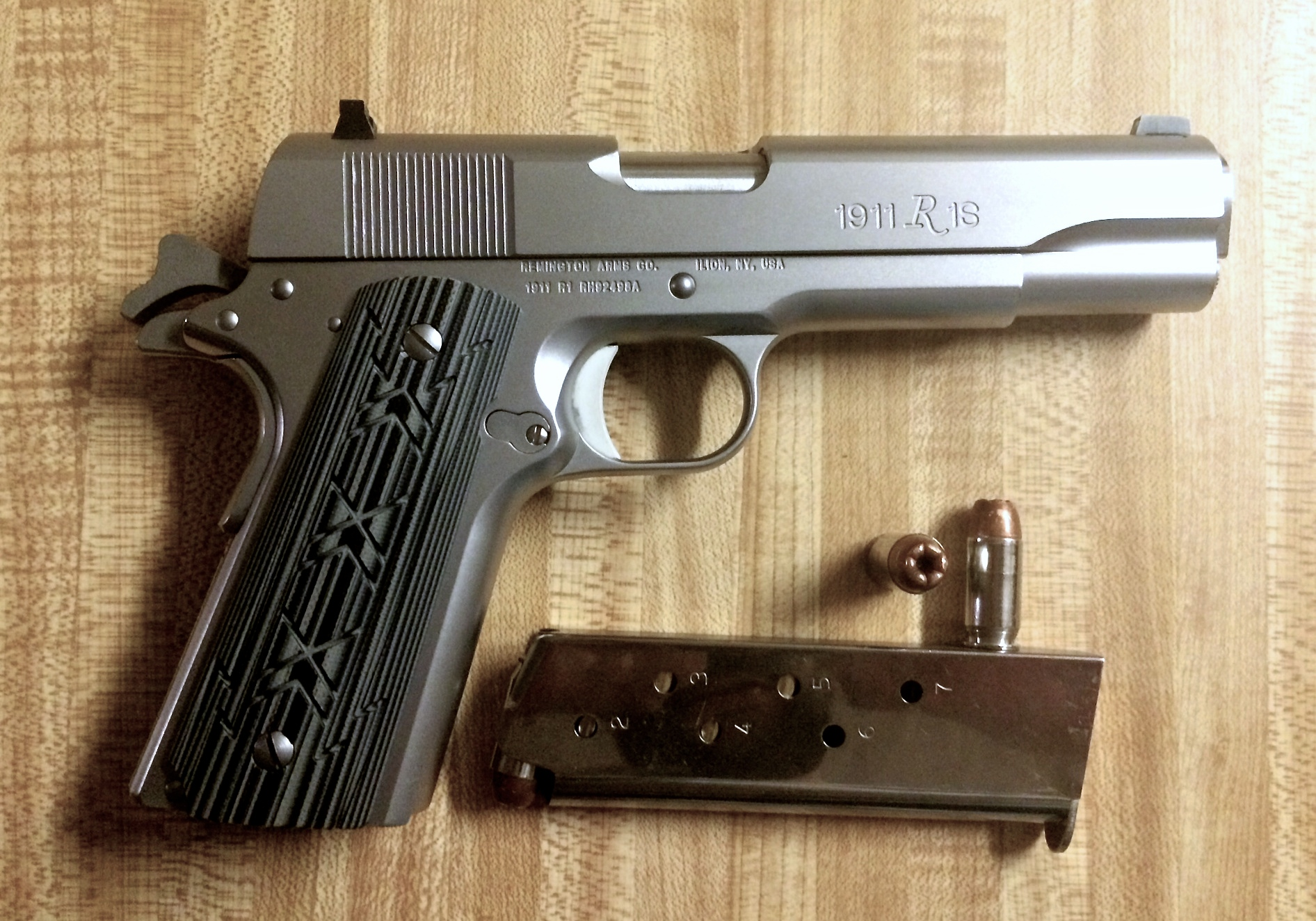 Remington R1S